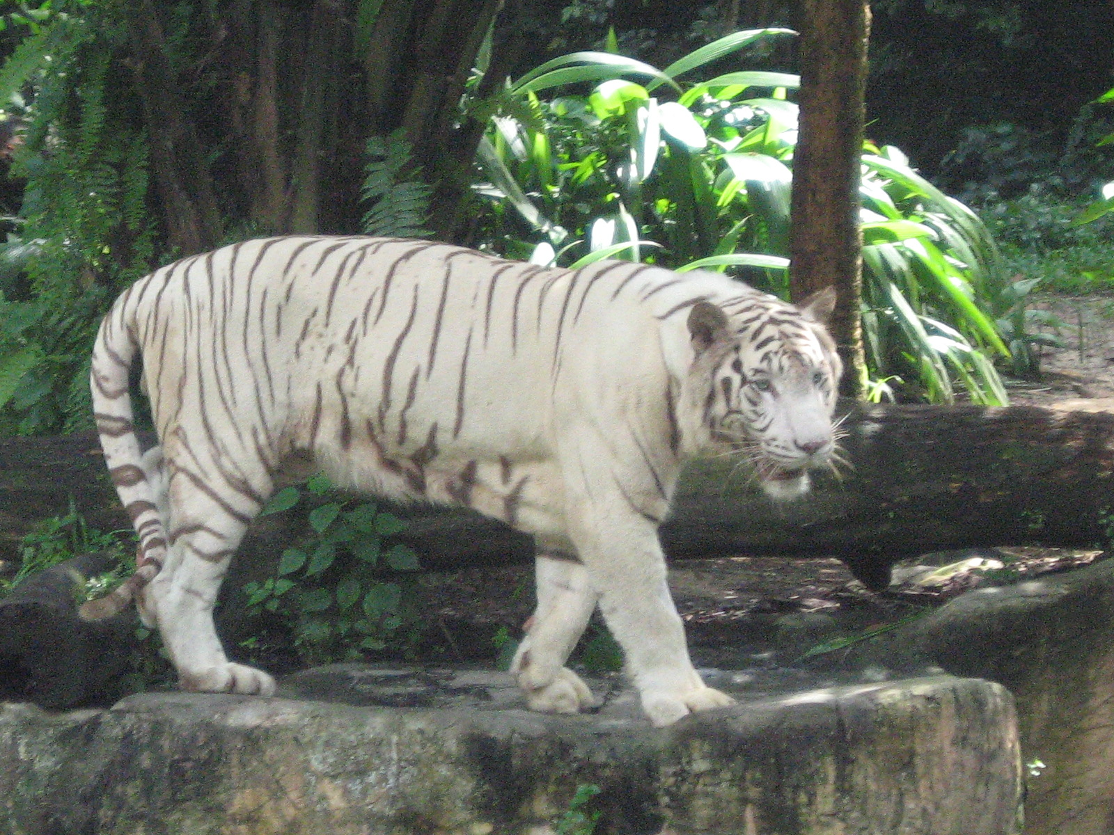 White tigers at the Singapore Zoo. Taken by Terence Ong in November 2006.